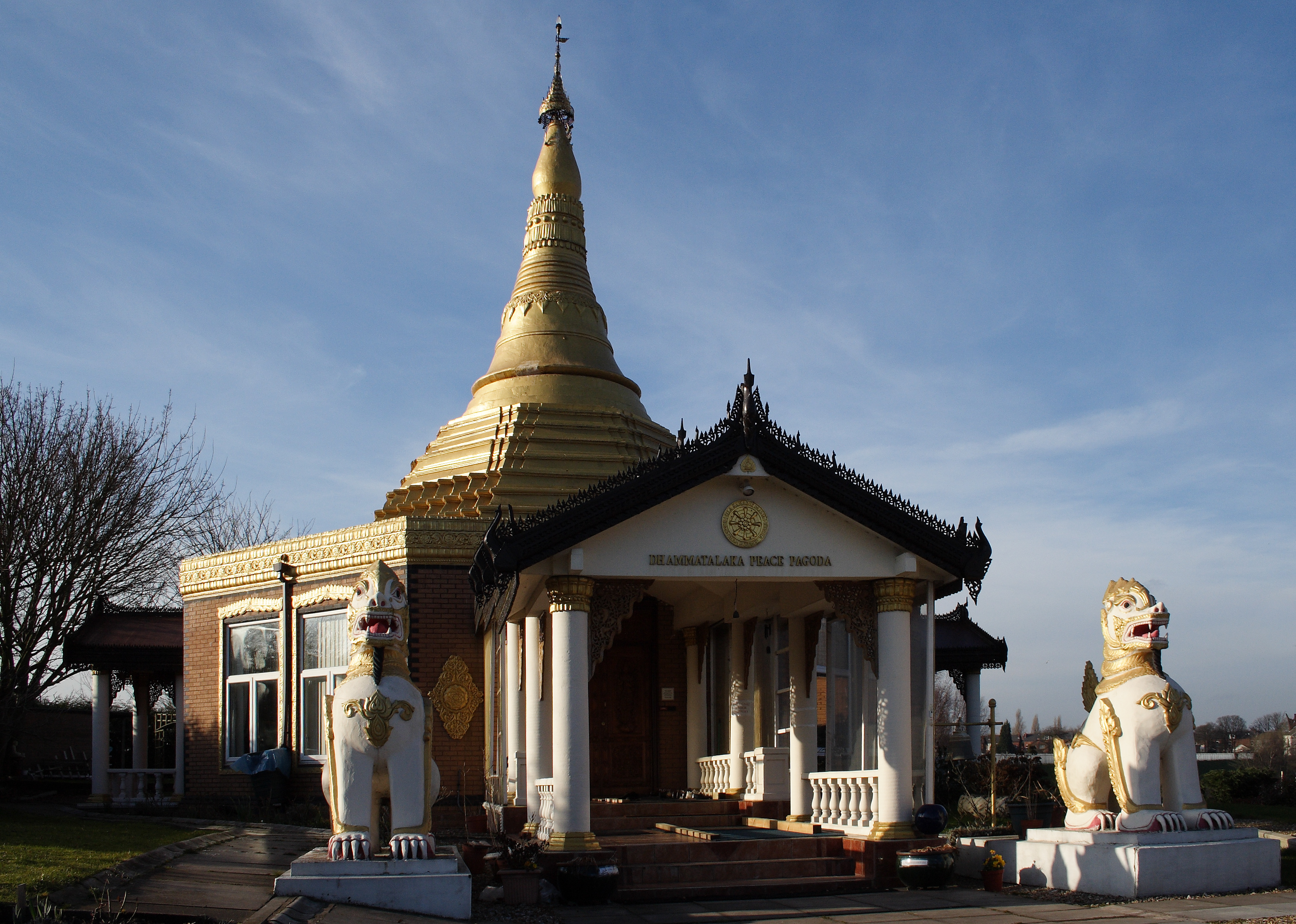 Buddhist Vihara in Ladywood, Birmingham, England